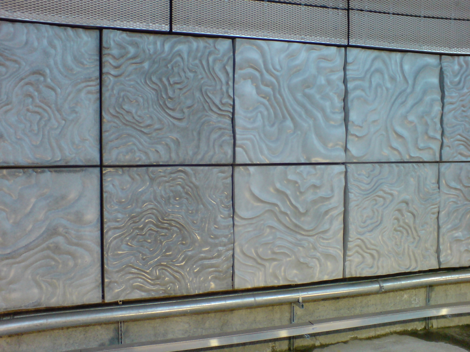 Sculptured wall segments in the trench of the New Lynn Train Station in Auckland, New Zealand. These are apparently intended to invoke both land contours and the pottery industry past of the area.